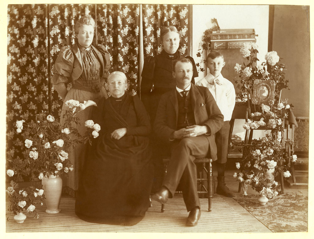 A family portrait of the Walter Colton Ball family of Lompoc, CA. A small photo of a mother (and a now deceased) child has been placed on a baby's high chair along with flowers.